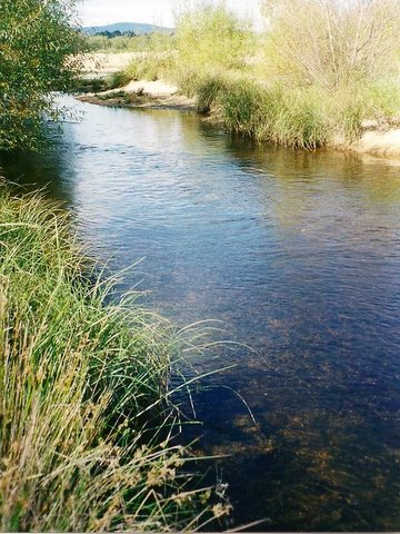 Shoalhaven River, west of Batemans Bay, near the Great Dividing Range